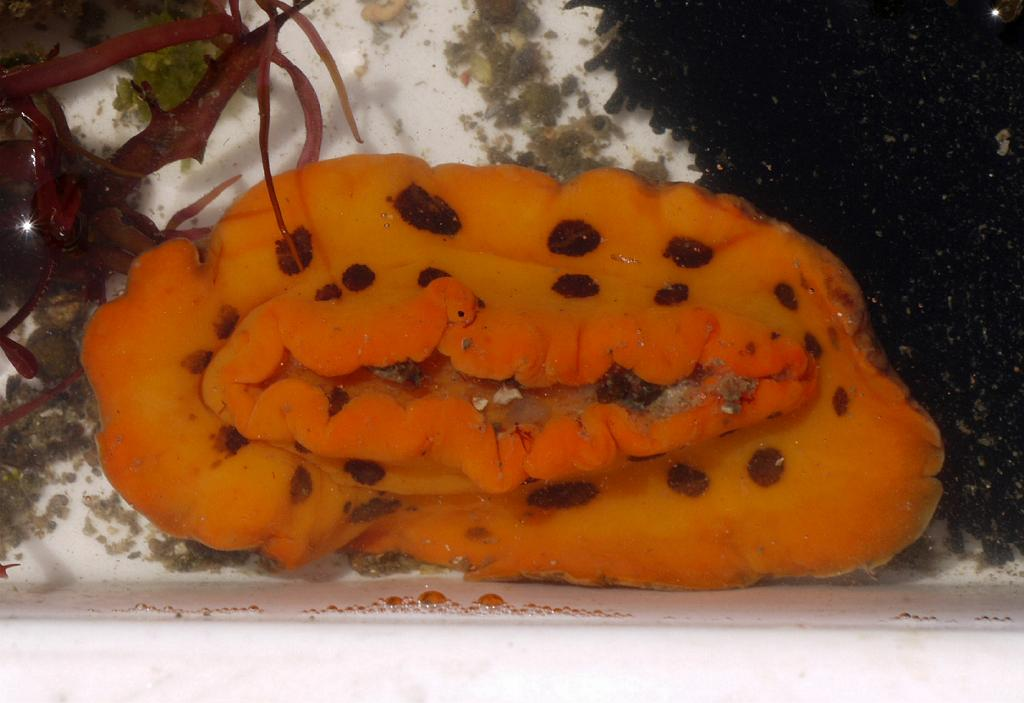 Platydoris speciosa(Dorididae)